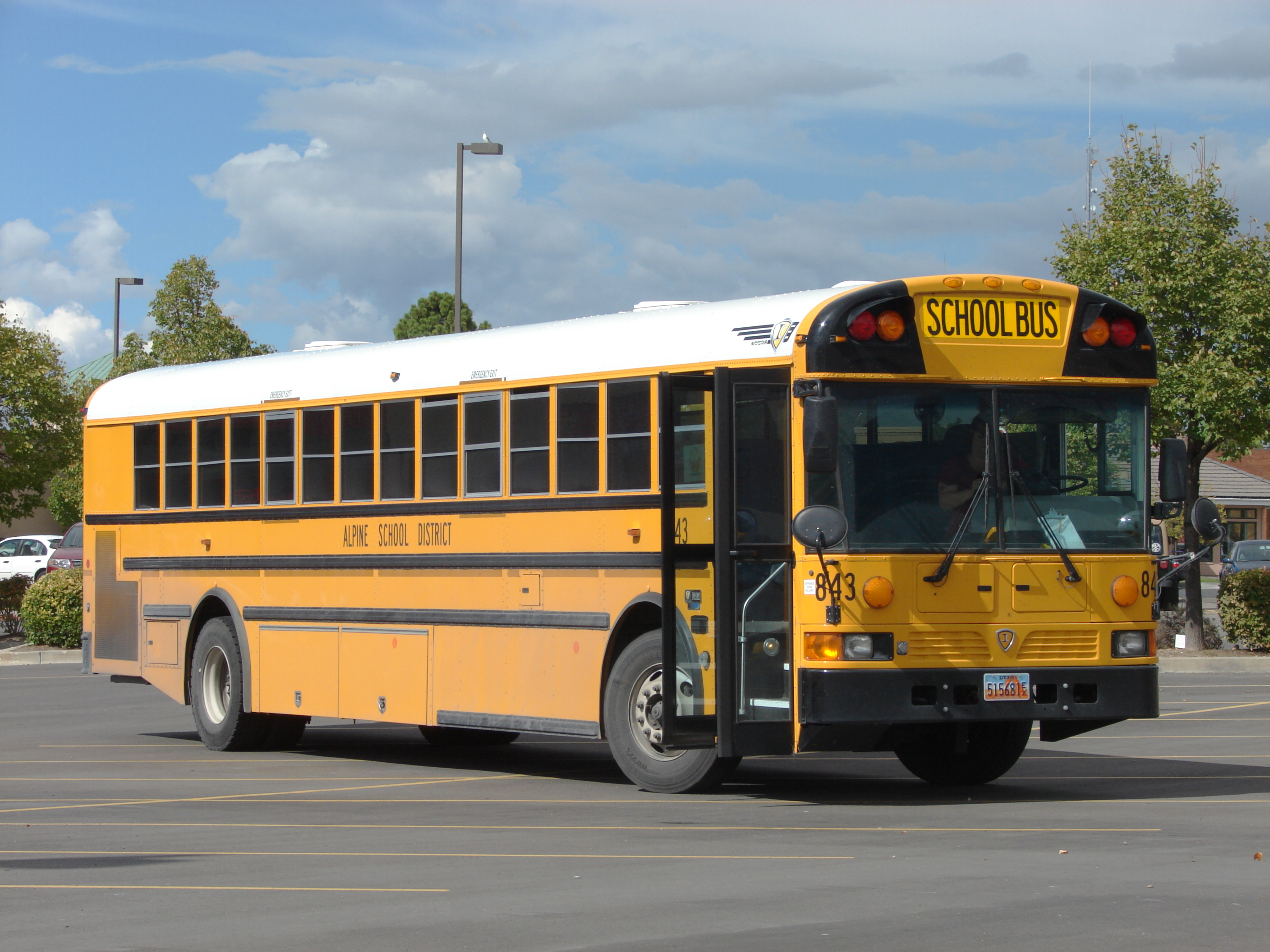 A typical Alpine School District school bus (Utah)